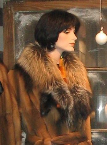 Weasel and cross-fox. In a furrier's shop window, Germany.